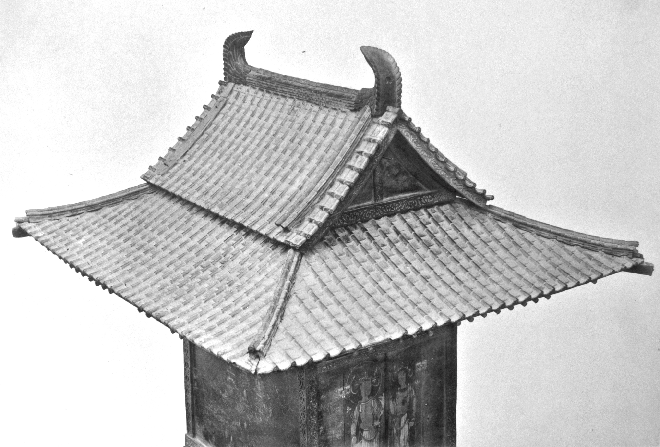 Tamamushi Shrine, Horyuji, Nara, Japan